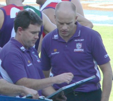 Fremantle Football Club coach Chris Connolly (left) reviews the team positions with assistant coach Michael Broadbridge